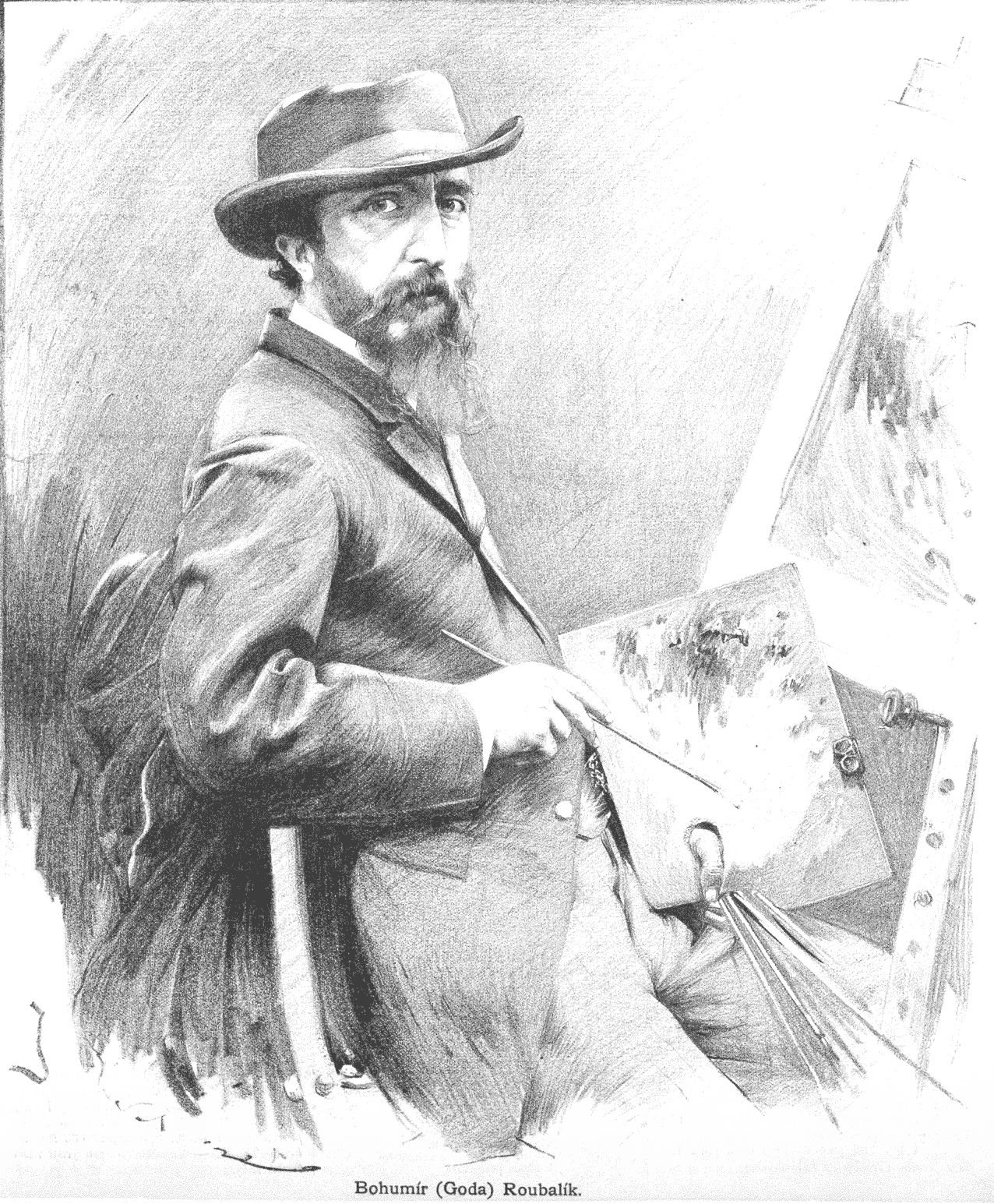 Portrait of Bohumír Roubalík (1845-1928), Czech painter, teacher and illustrator